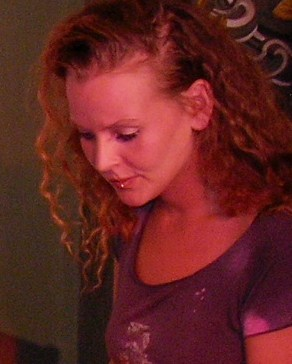 Actress Vaile, Chess Olympiad 2008 at Dresden.